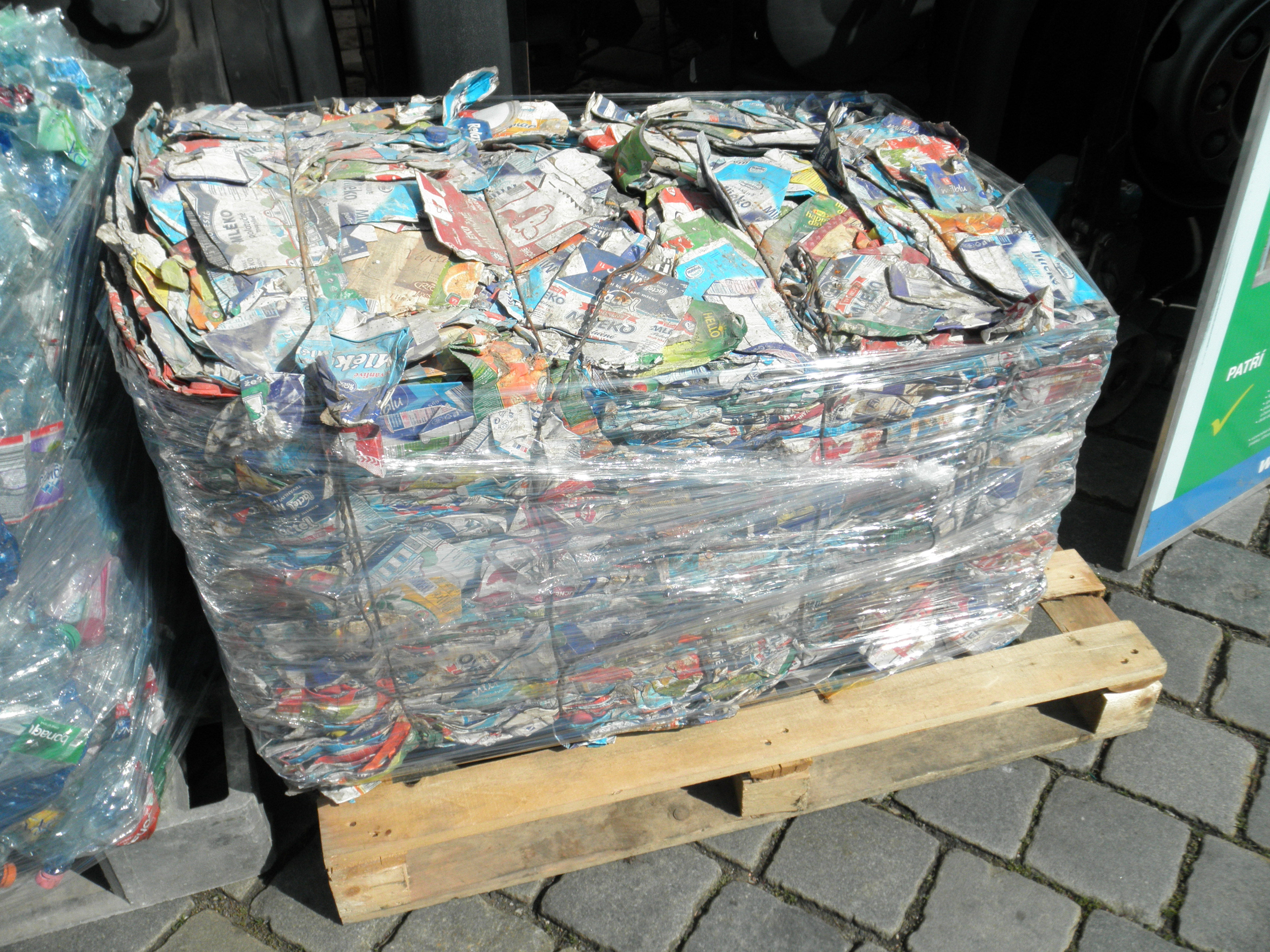 Bale of crushed drink cartons. In Olomouc, the Czech Republic.